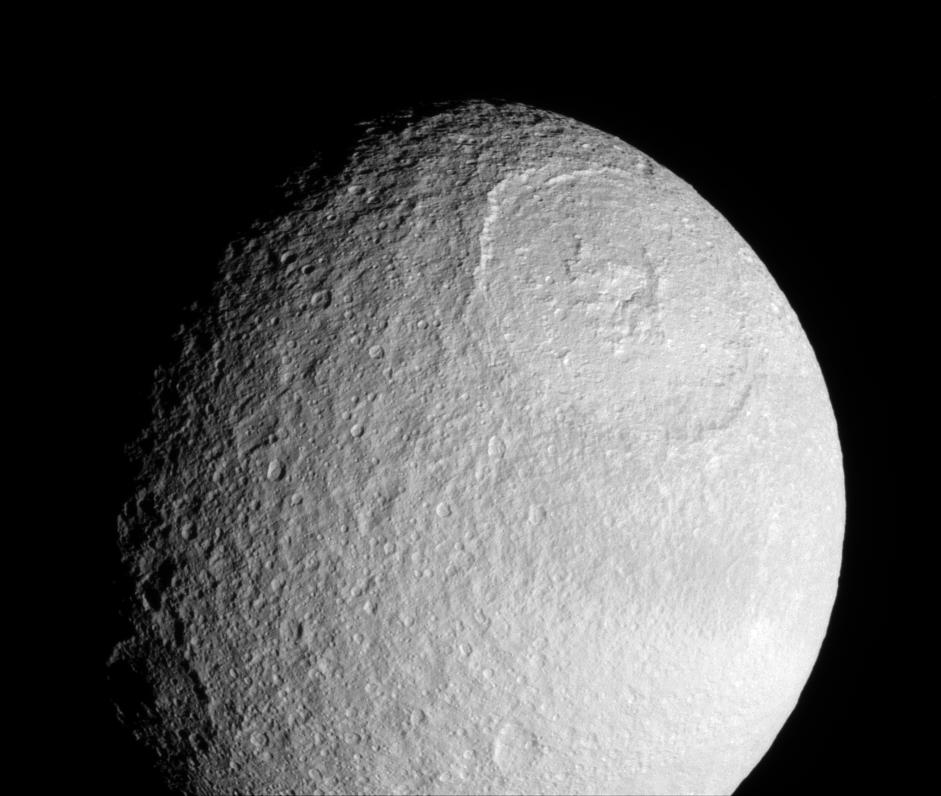 Originial description from Photojournal: The Cassini spacecraft provides a stunning view of the Odysseus impact basin on Tethys. The enormous basin is 450 kilometers (280 miles) wide. The medium-sized crater Melanthius is seen along the terminator at lower left. This view looks toward the leading hemisphere of Tethys (1,071 kilometers, or 665 miles across). North is up. The image was taken in visible light with the Cassini spacecraft narrow-angle camera on July 21, 2007. The view was obtained at a distance of approximately 211,000 kilometers (131,000 miles) from Tethys and at a Sun-Tethys-spacecraft, or phase, angle of 46 degrees. Image scale is 1 kilometer (0.6 mile) per pixel.